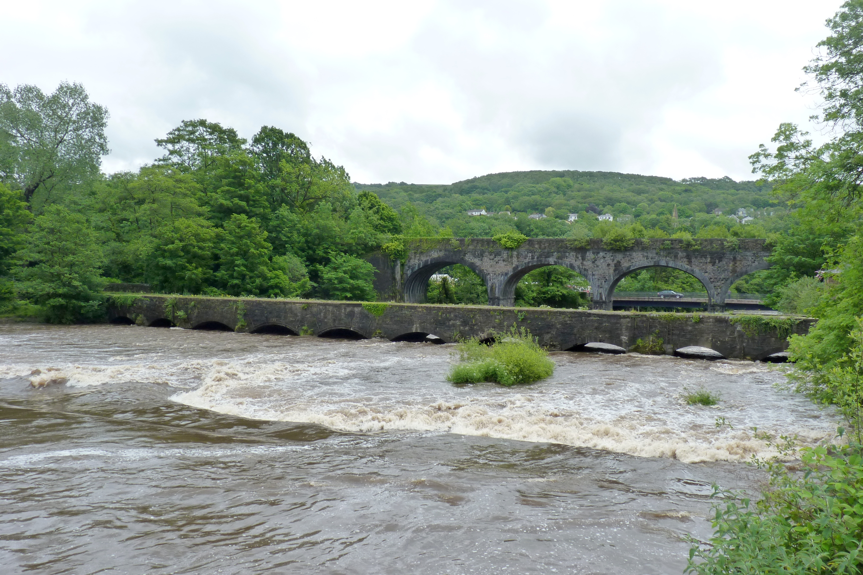 The 10 arched Aberdulais Aqueduct carries the Tennant Canal over the River Neath to join the Neath Canal on the east side of the river, near the Aberdulais tin works. A railway bridge and road bridge can both be seen beyond the aqueduct. The river is shown in spate following heavy rain in early June 2012.